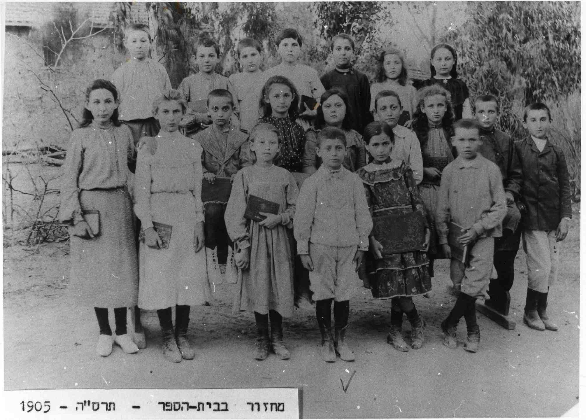 Habib school students - the first Hebrew school